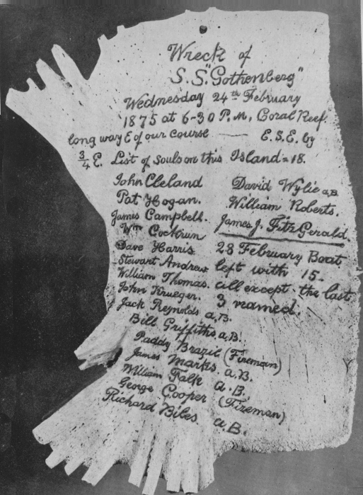 Creator unknown. Black & white photo held by the South Australia Museum records. The turtle shell was engraved by the 18 survivors of the SS Gothenburg who managed to reach Holbourne Island on two lifeboats in February 1875. It is believed, although not certain, that the photograph was taken by the Adelaide School of Photography in July 1875. Free of copyright restriction. The actual turtle shell was presented to the South Australia Museum in 1932 by Mr W.D. Cleland, brother of John Cleland, one of the survivors.